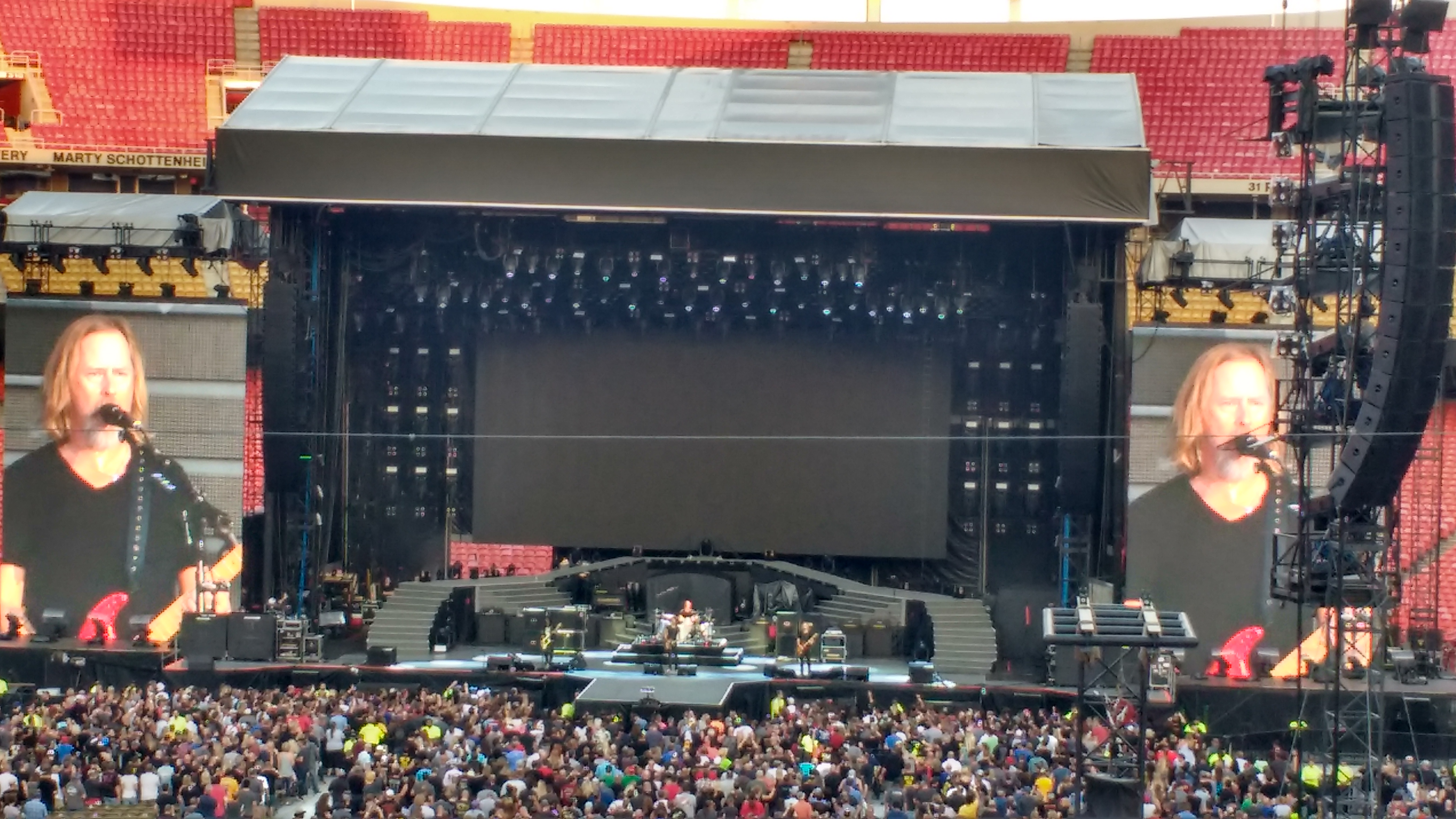 Alice In Chains opening for Guns N' Roses as part of the "Not In This Lifetime...' Tour on June 29, 2016 In Arrowhead Stadium in Kansas City, Missouri, USA.